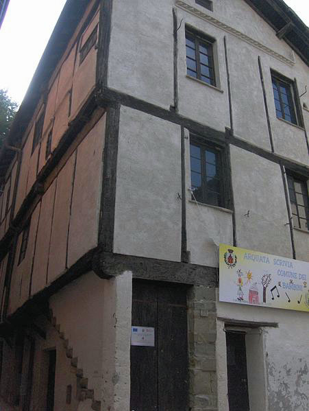 Old Home in Arquata scrivia